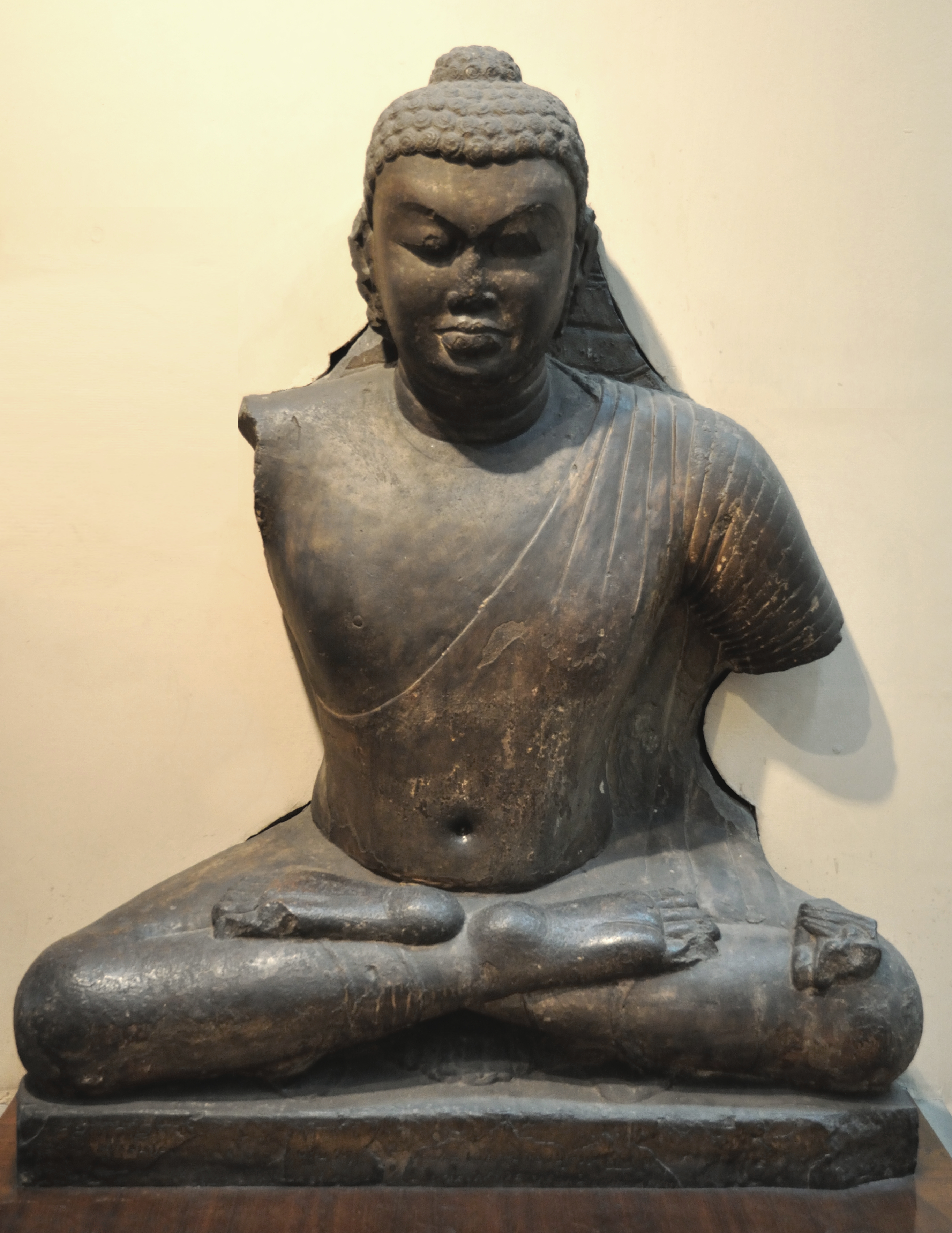 Bodh Gaya Bodhisattva inscribed Gupta Year 64, ie 385 CE